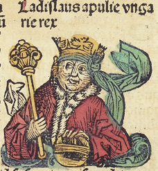 Illustration from the Nuremberg Chronicle (Latin edition in Sao Paulo)